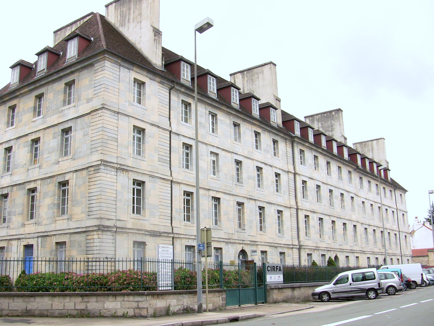 Ruty barrack, located in Besançon (Doubs, France)